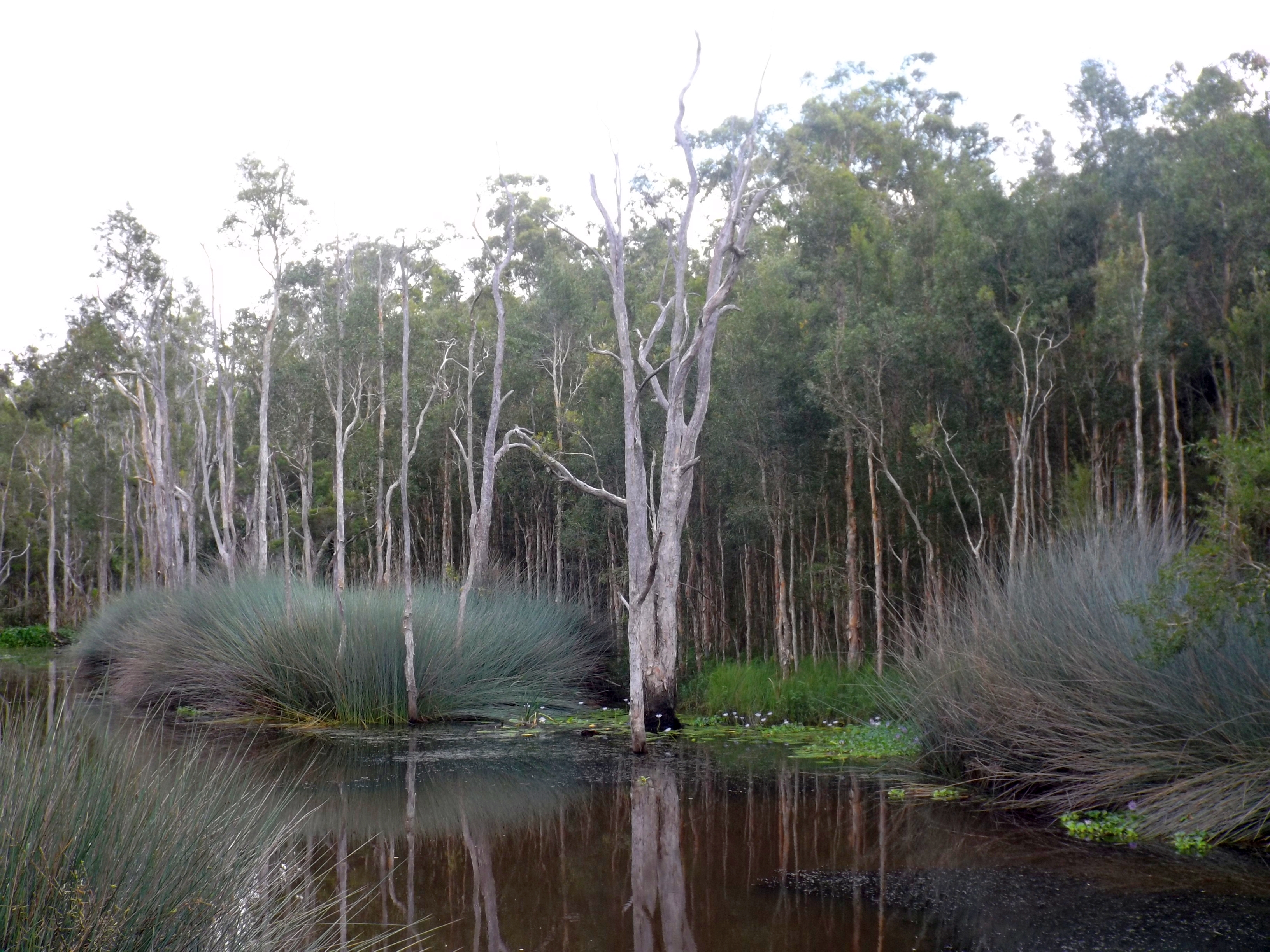 Photo of Illaweena Lagoon in Karawatha Forest at Karawatha, Brisbane, Queensland, Australia.